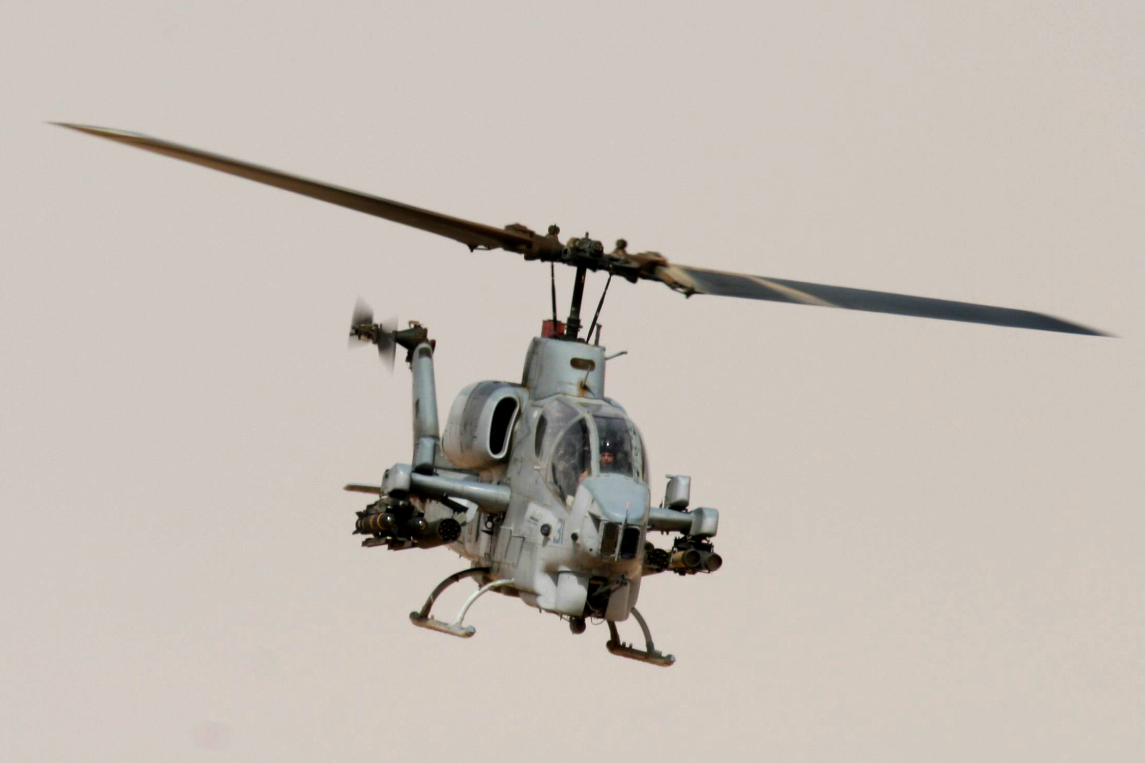 AL QAIM, Iraq � An AH-1W Super Cobra from Marine Light/Attack Helicopter Squadron 269, Detachment Al Qaim flies over the desert during a training flight June 4. The Marines in the detachment have been busy supporting Operation Iraqi Freedom and training as much as they can to get new qualifications or maintain their current qualifications.